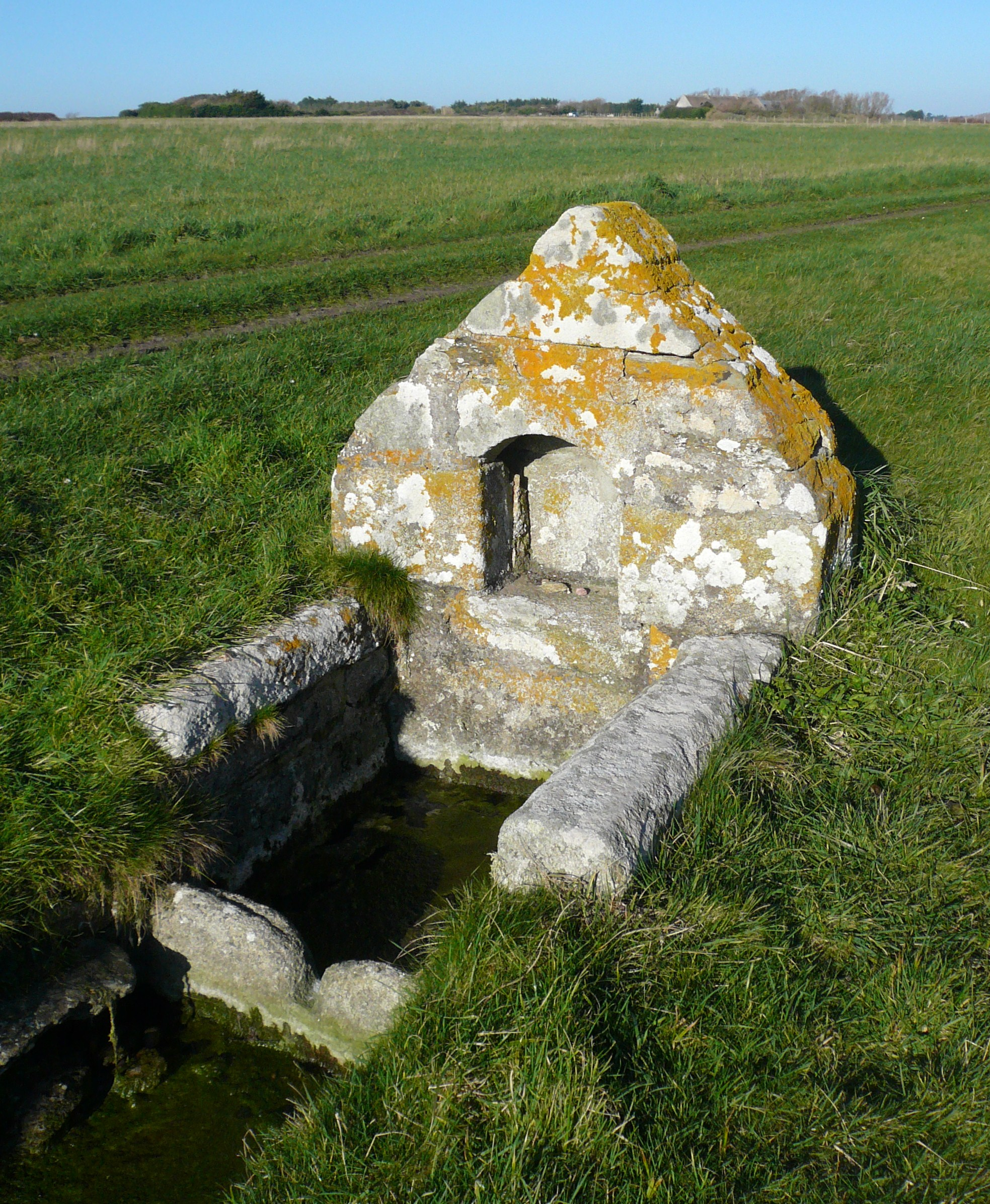 Saint Vio's Foutain in Tréguennec, Finistère, Brittany, France.